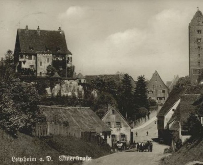 Leipheim on the east bank of the Danube belonged to of the Free Imperial City of Ulm for some 350 years until the mediatization of Ulm in 1802. Leipheim Castle (left on picture) which housed the governor, was entirely rebuilt in the mid-16th century. Cropped from a circa 1925 postcard.